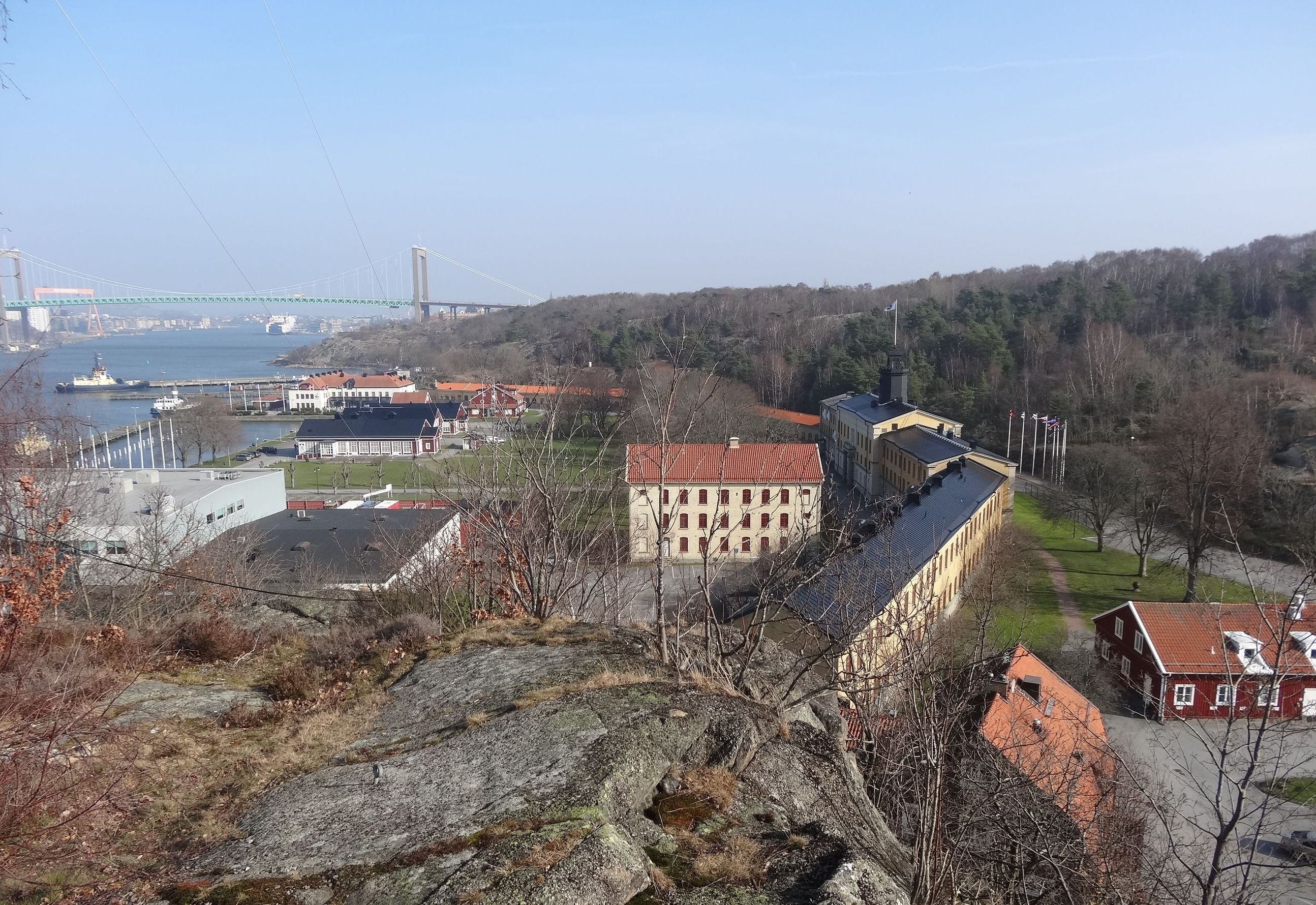 Former naval base Nya Varvet in Gothenburg, Sweden, with 300 years of building developement, seen from the hill Stora Billingen. In the center is the former prisonbuilding from 1873, and military barracks from around 1820 enclosing the harbour area.